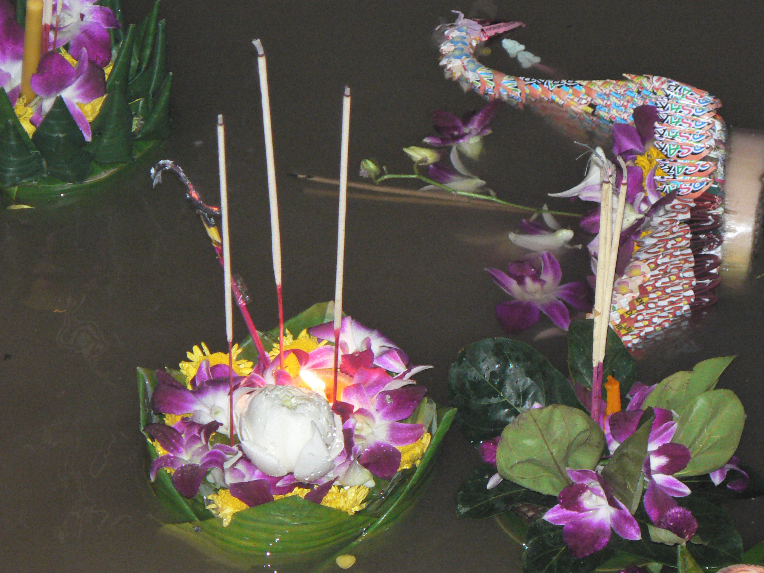 Loi Krathong, Chiang Mai 2005